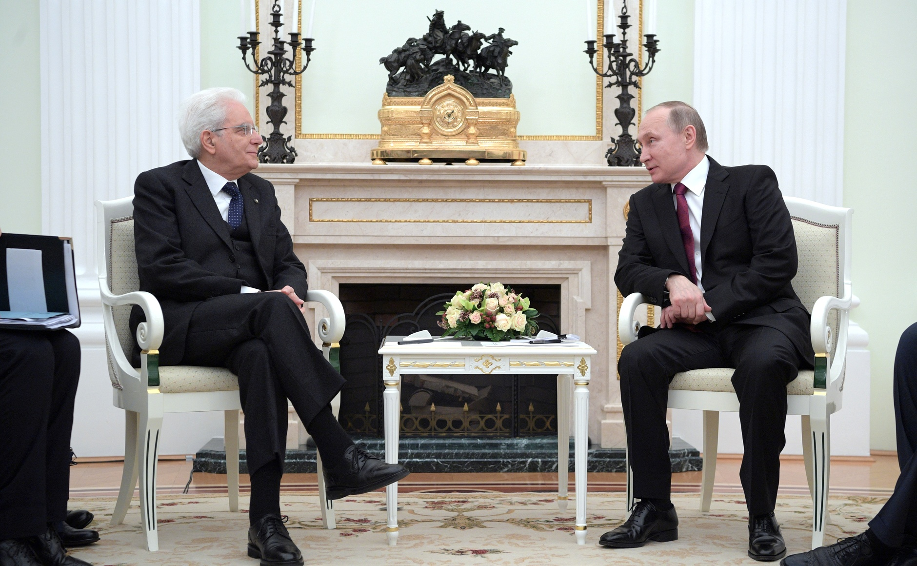 President of Italy Sergio Mattarella and President of Russia Vladimir Putin. Kremlin, Moscow